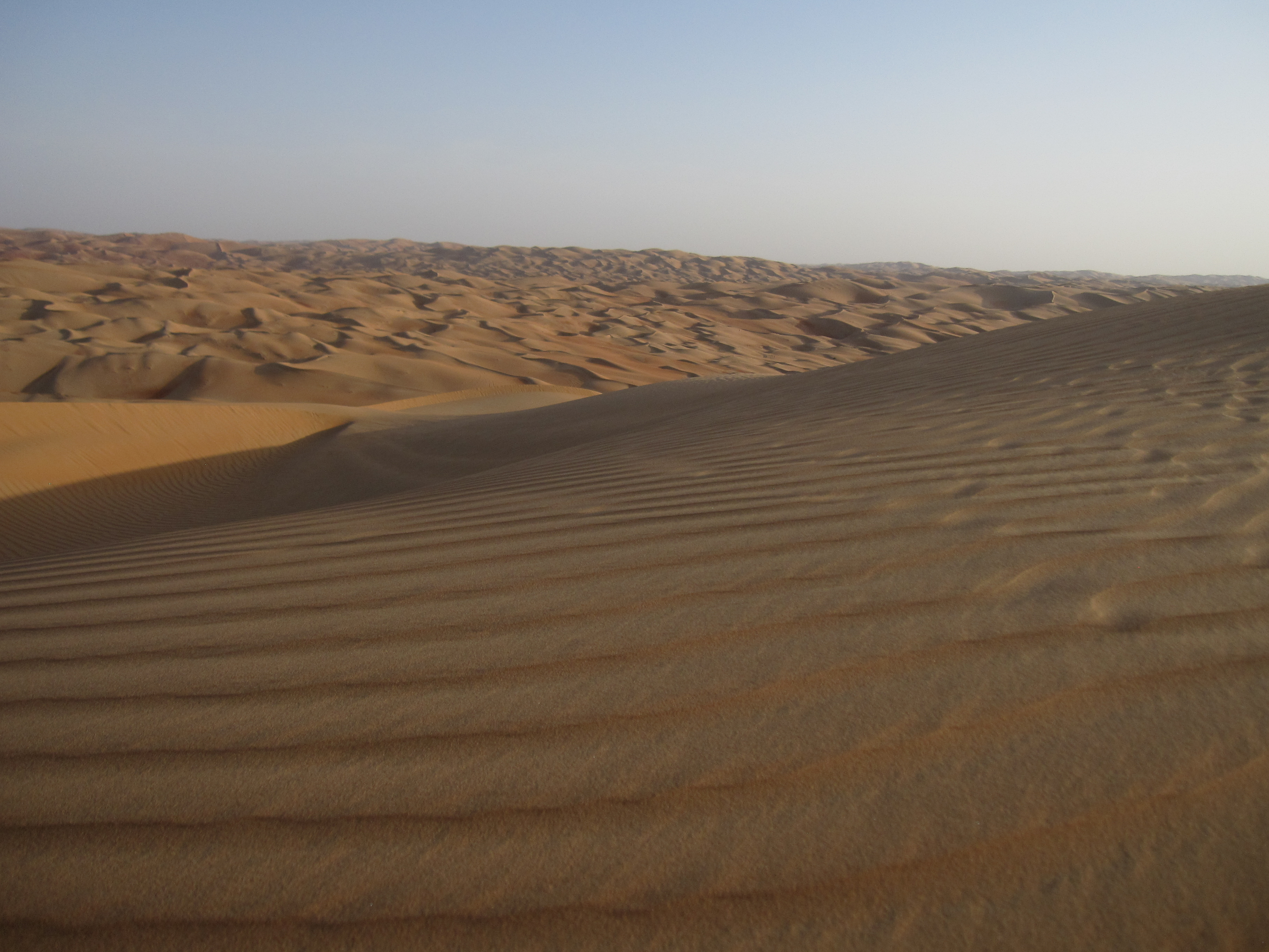 Sand in the Empty Quarter